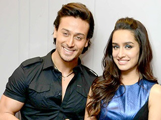 Tiger Shroff & Shraddha Kapoor snapped at Media meet of her film 'Baaghi' in 2016